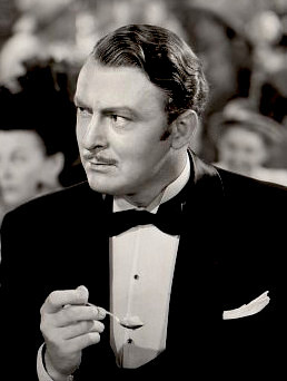 L. to R. : Martha Scott, John Wayne & Albert Dekker in In Old Oklahoma aka War of the Wildcats - cropped screenshot